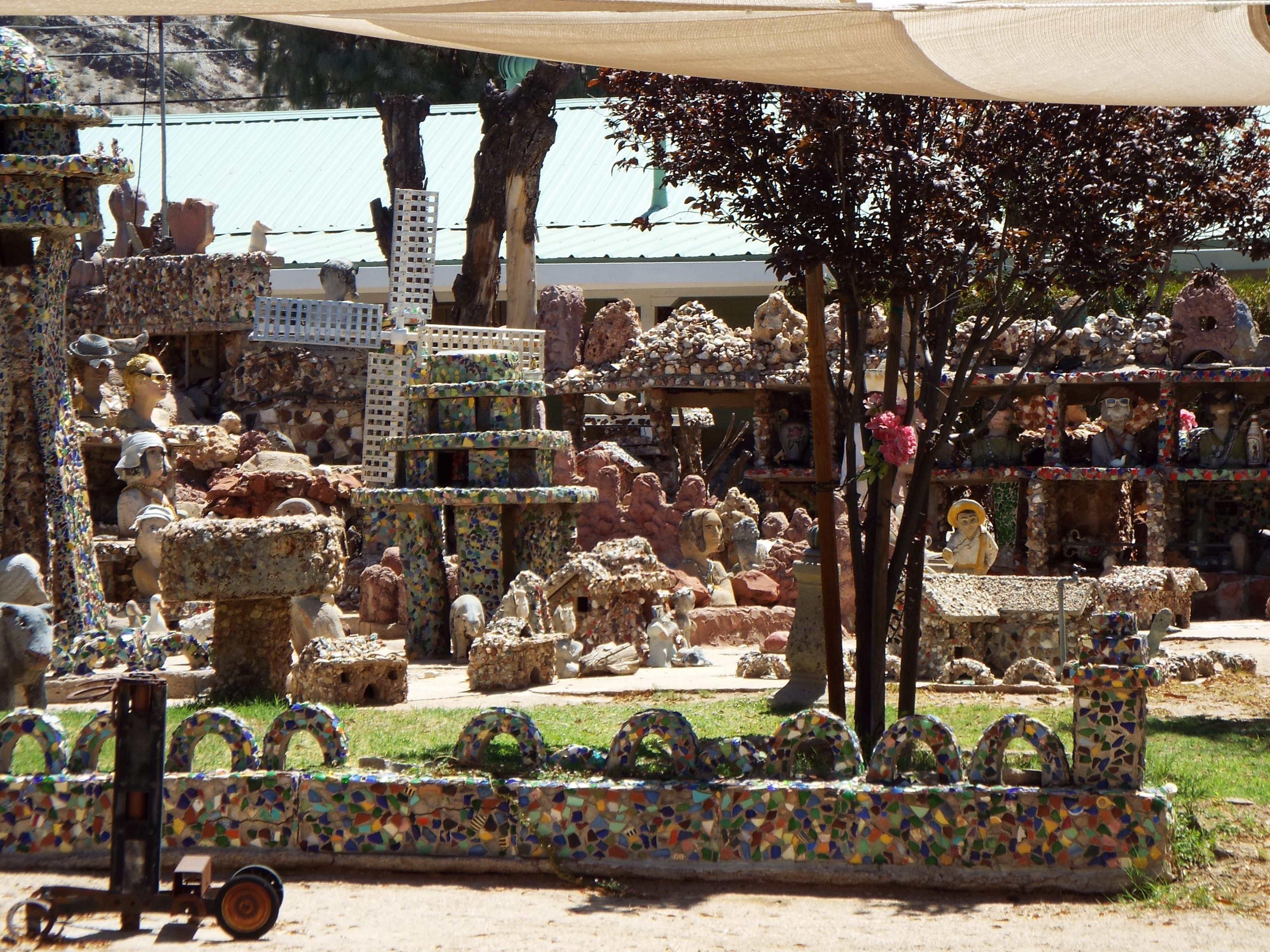 Thompson’s art in the garden. The Sunnyslope Rock Garden created in from 1952 to 1972 by local artist Grover Cleveland Thompson. It is located at 10023 N. 13th Place in Sunnyslope, Phoenix, Arizona.